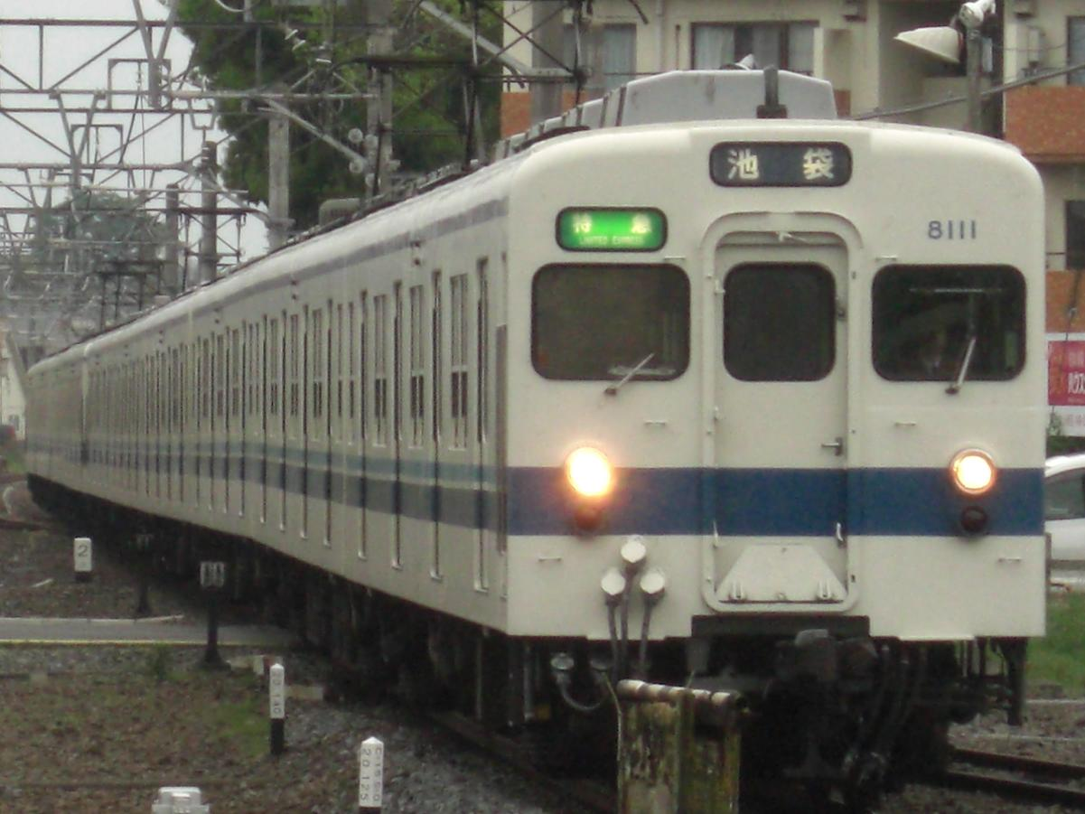 Tobu 8000 series EMU set 8111 on a "Limited Express" service on the Tobu Tojo Line